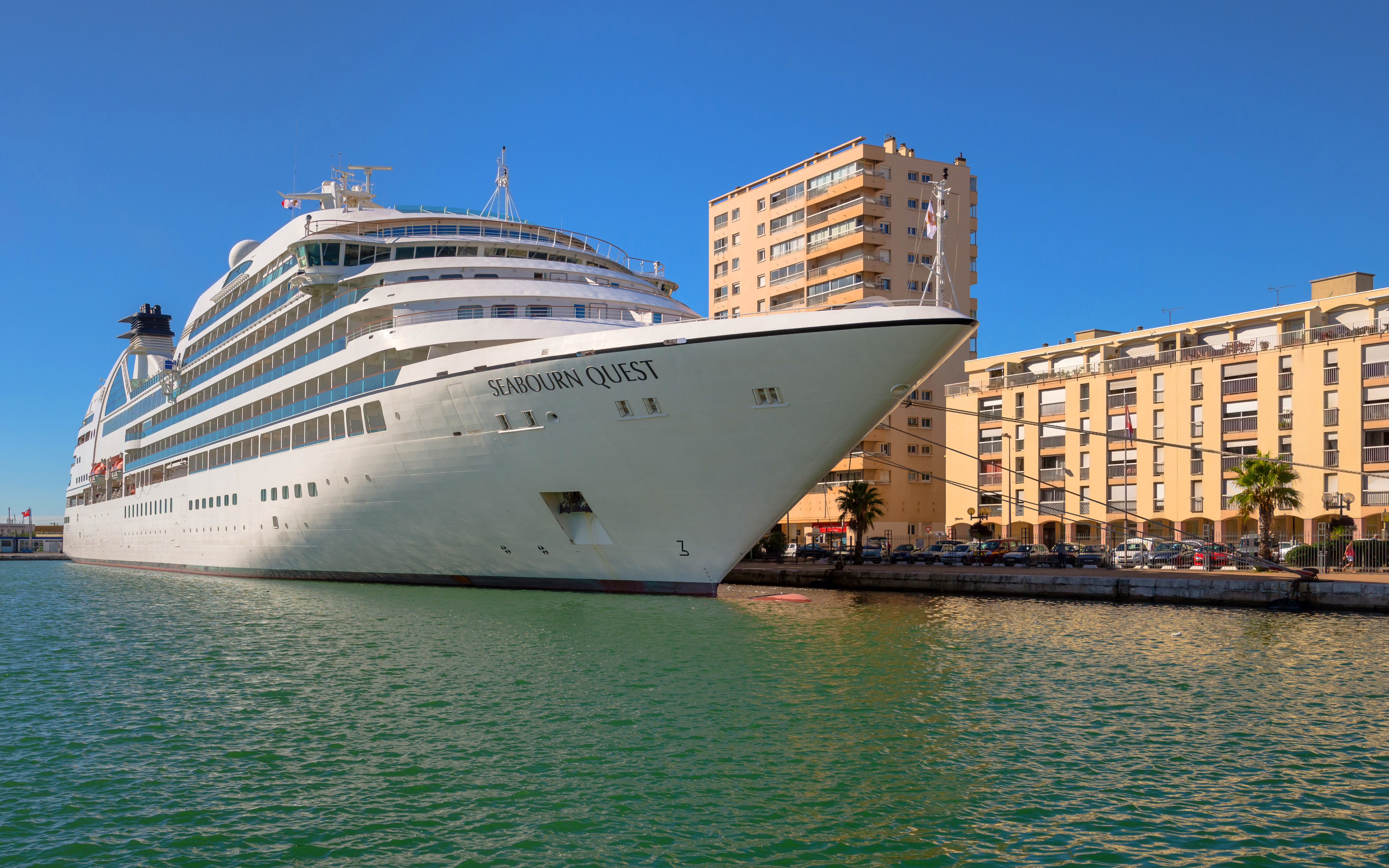 The MV Seabourn Quest (2011), a cruise ship of the Seabourn Cruise Line company, moored at the Algiers Embankment. Sète, Hérault, France.